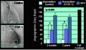 I myself am the author of this image, have performed the according research, and created the picture. It demonstrates the angiogenic response of the human heart after FGF-1 application.